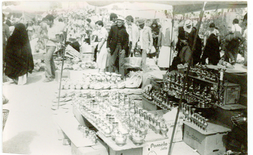 Images constitute the life of the Bedouin market in Beersheba